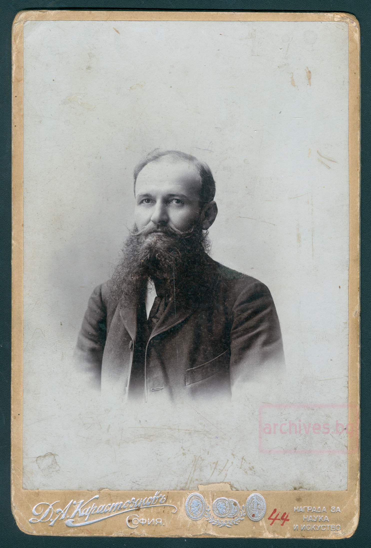 Gjorche Petrov (1865-1921)